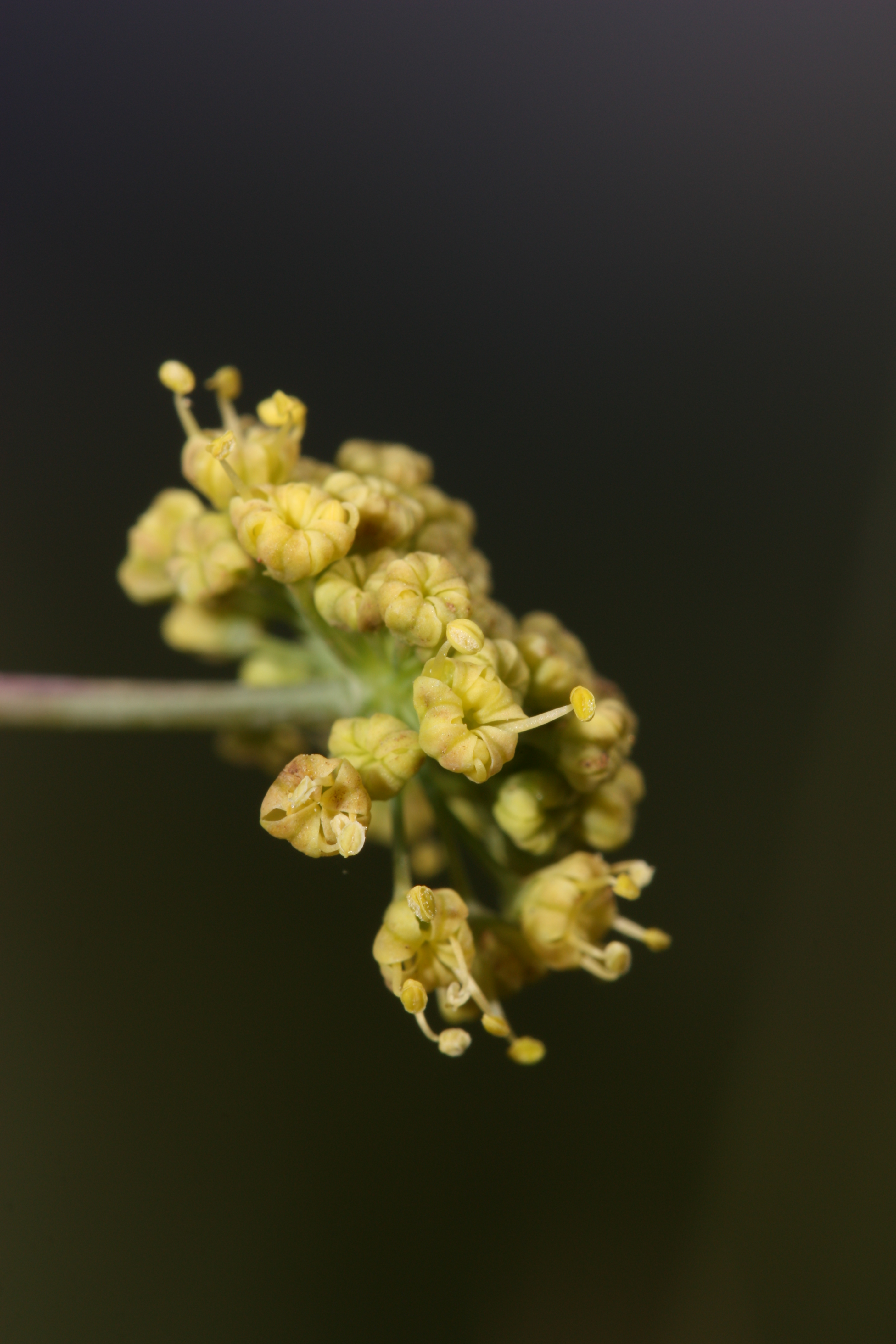 Barestem Biscuitroot, Indian-consumption-plant, Pestle Parsnip Viewpoint location: McCall Point Trail, Tom McCall Preserve Viewpoint elevation: 516 meter (1693 ft) Location source: Garmin GPSmap 60CSx Location Datum: WGS84